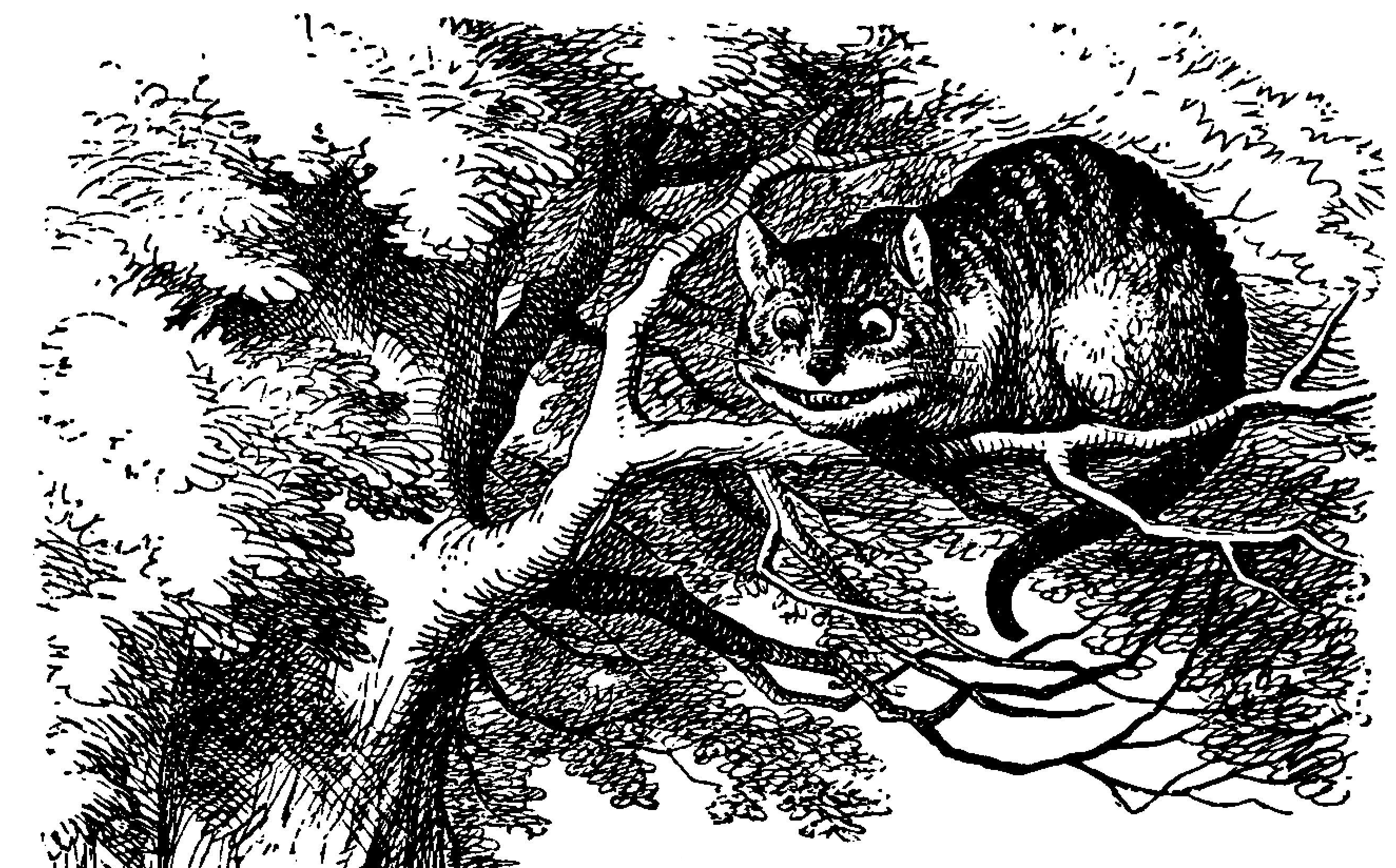 Alice’s Abenteuer im Wunderland Übersetzer: Antonie Zimmermann Orginal Titel: Alice's Adventures in Wonderland Illustrationen: John Tenniel Divided from the original into two separate images for use on Alice's Adventures in Wonderland/Chapter 6